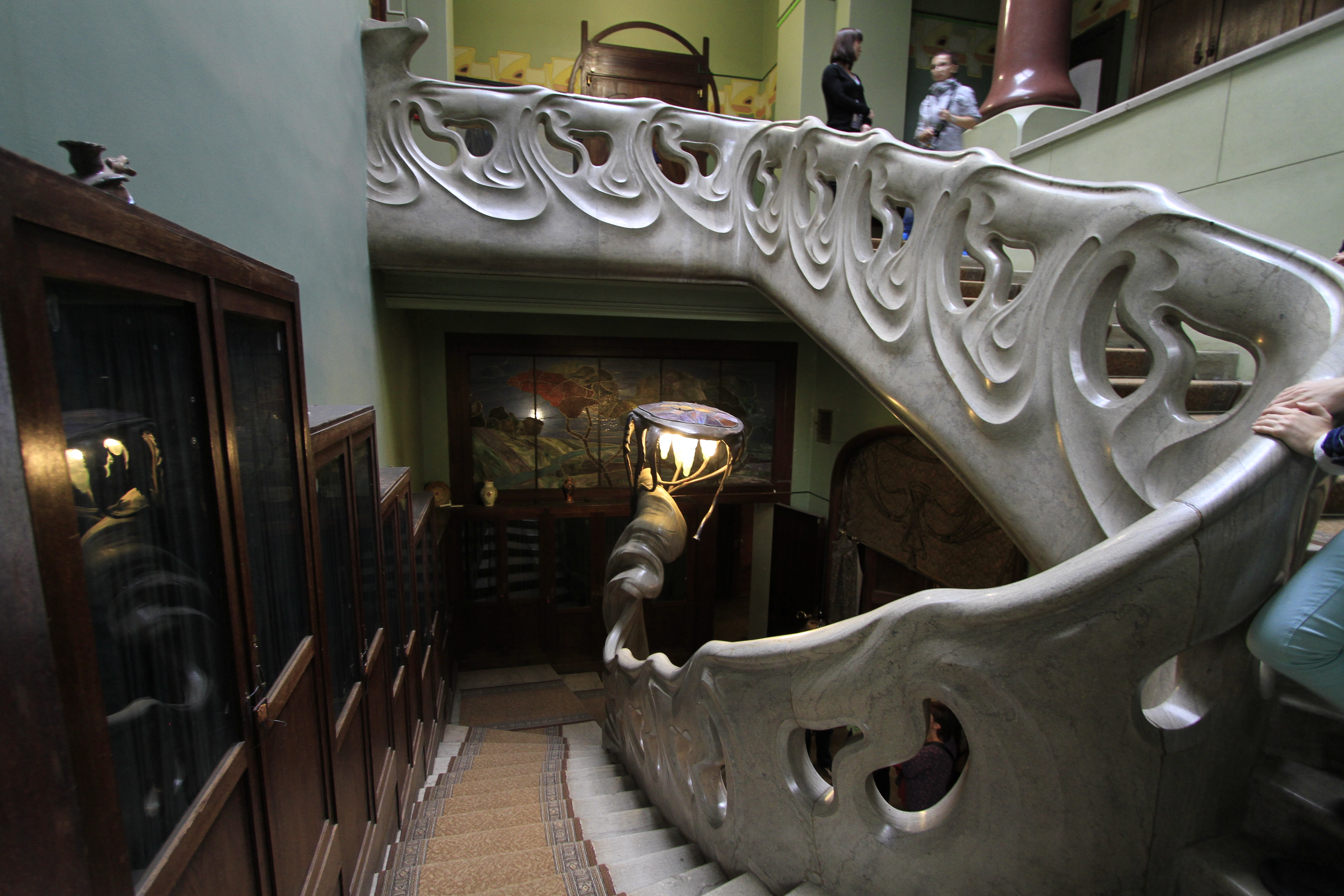 Moscow. Ryabushinsky House. Interiors. Main staircase